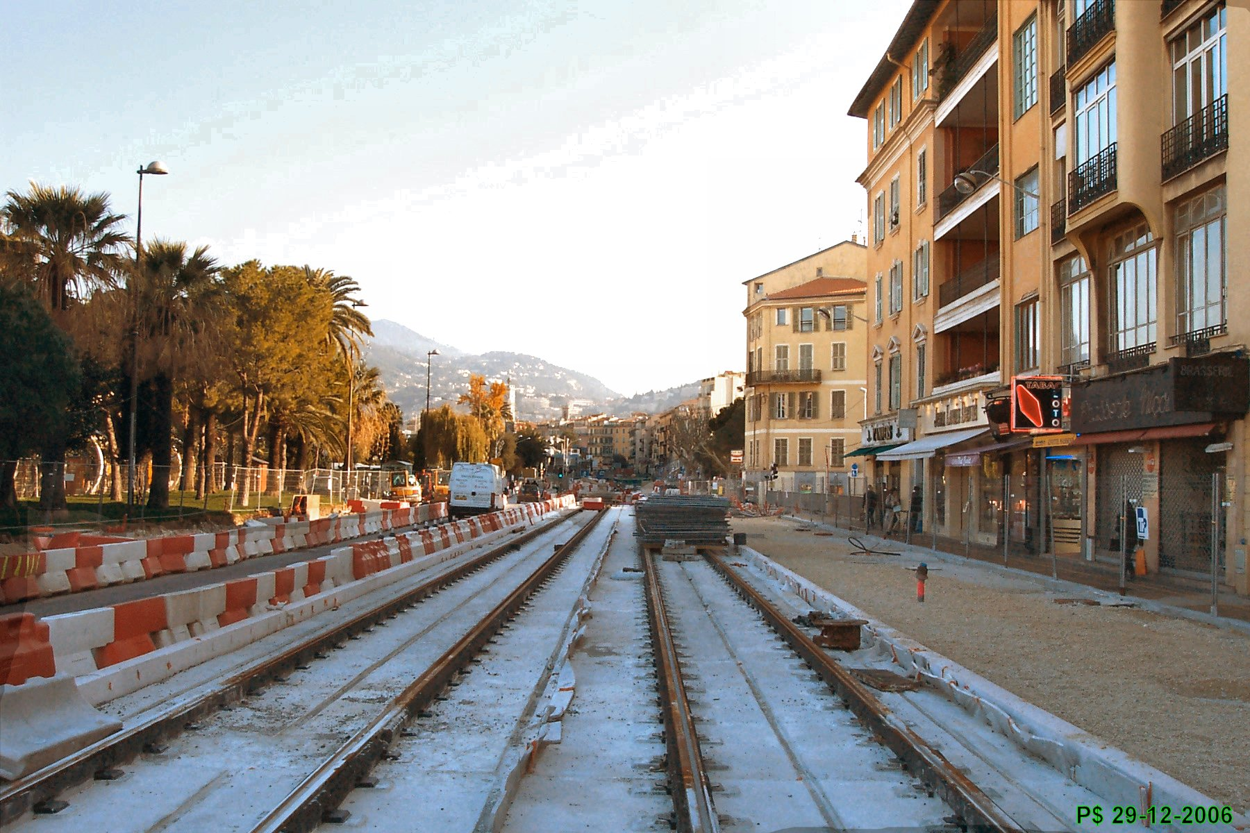 Tram track on Jean Jaurès Boulevard under construction in Nice, France